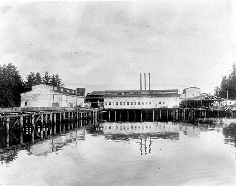 From John Cobb field notebook: Tyee whaling plant, general view, Jul 28, 1911 Subjects (LCTGM): Piers & wharves--Alaska--Tyee Subjects (LCSH): Tyee Company; Whaling--Alaska--Tyee; Docks--Alaska--Tyee